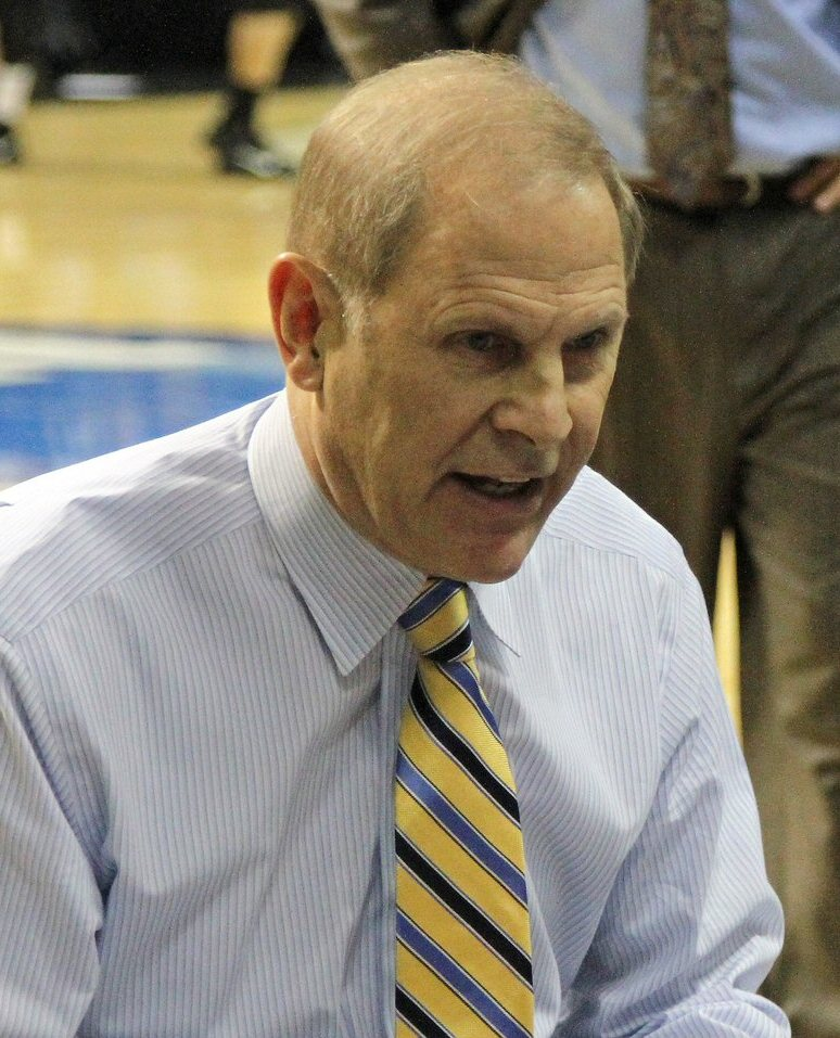 John Beilein coaching Tim Hardaway, Jr. at the w:2013 NCAA Men's Division I Basketball Tournament